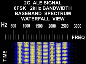 2G ALE Automatic Link Establishment signal, 8FSK 2kHz bandwidth, baseband spectrum waterfall display, composite measurement notated drawing